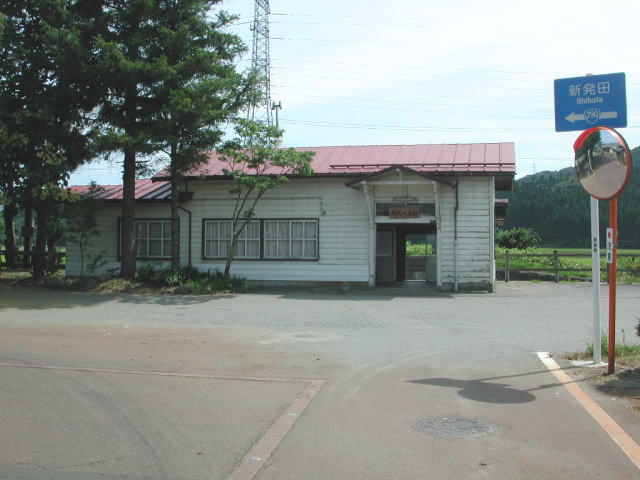 Echigo-Oshima Station in Sekikawa, Niigata Prefecture, Japan